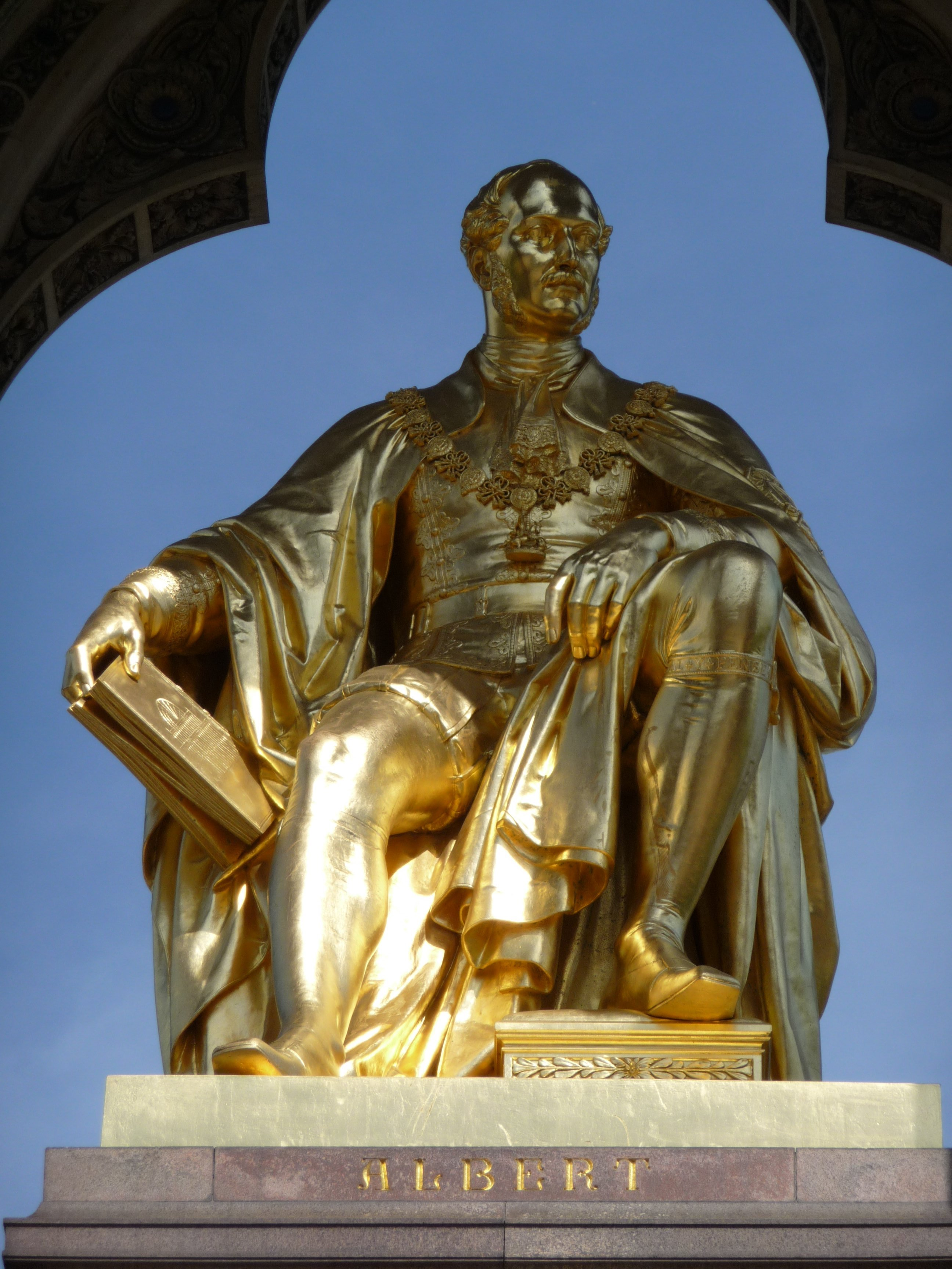 Prince Albert Statue from the Albert Memorial in London